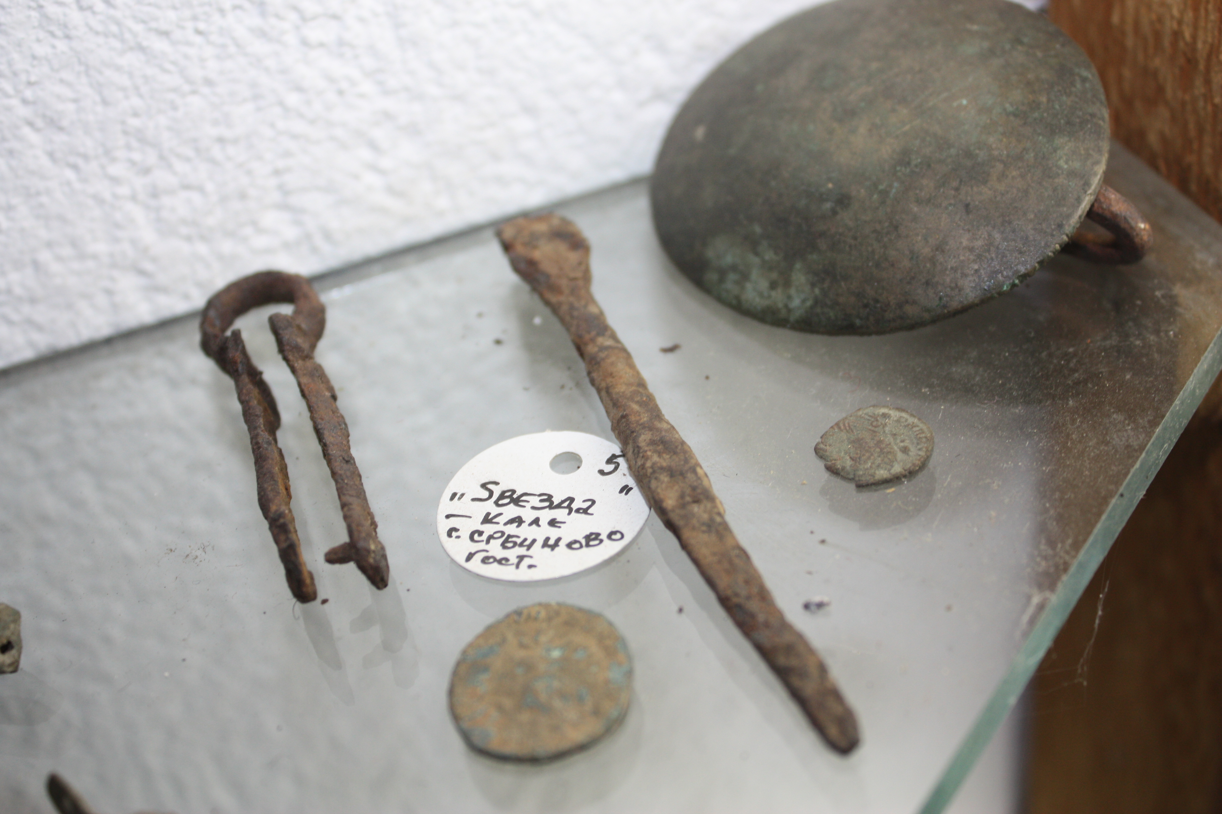 The World’s Smallest Ethnological Museum in Džepčište near Tetovo in Macedonia